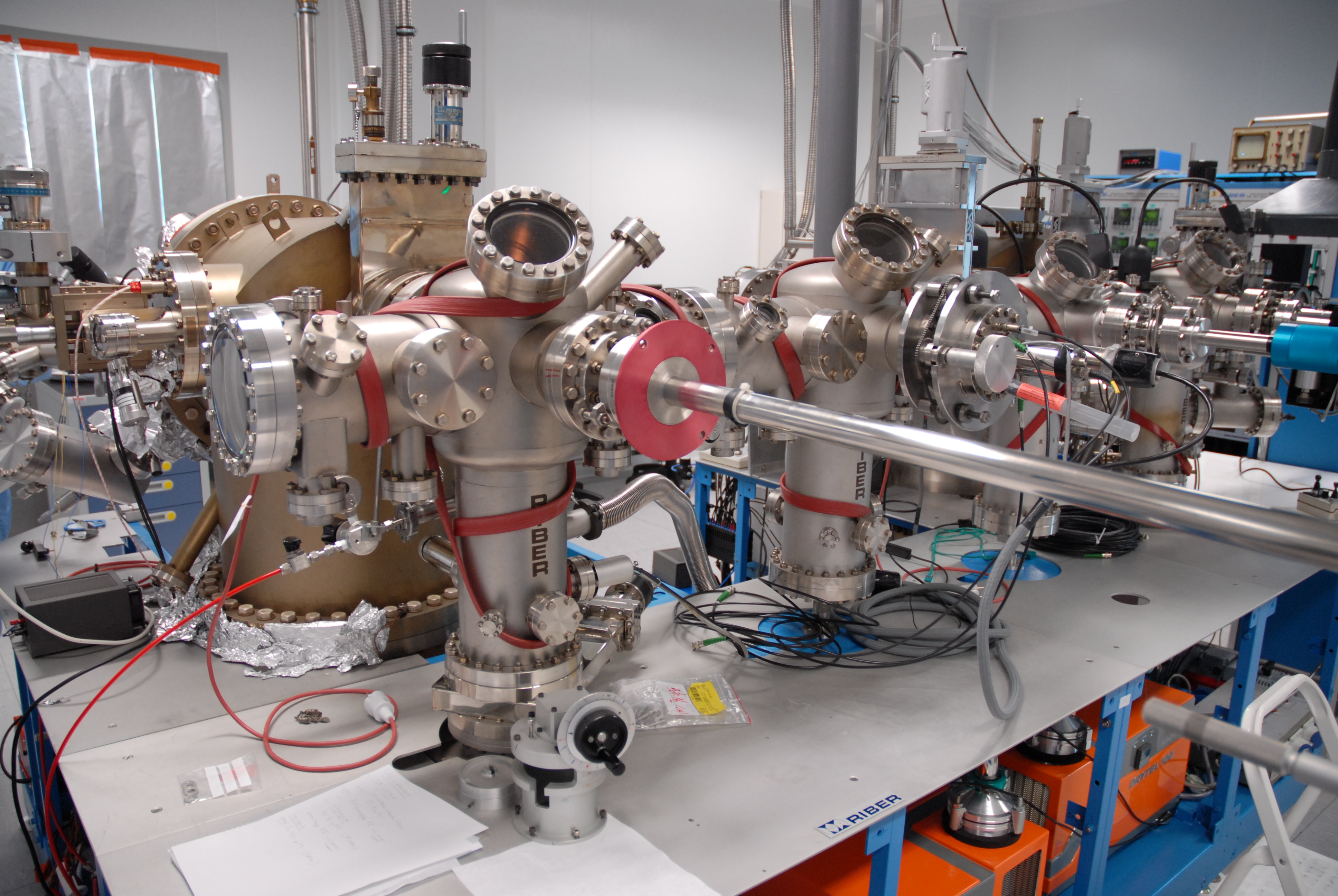 Molecular-beam epitaxy system at LAAS-CNRS technological facility in Toulouse, France.